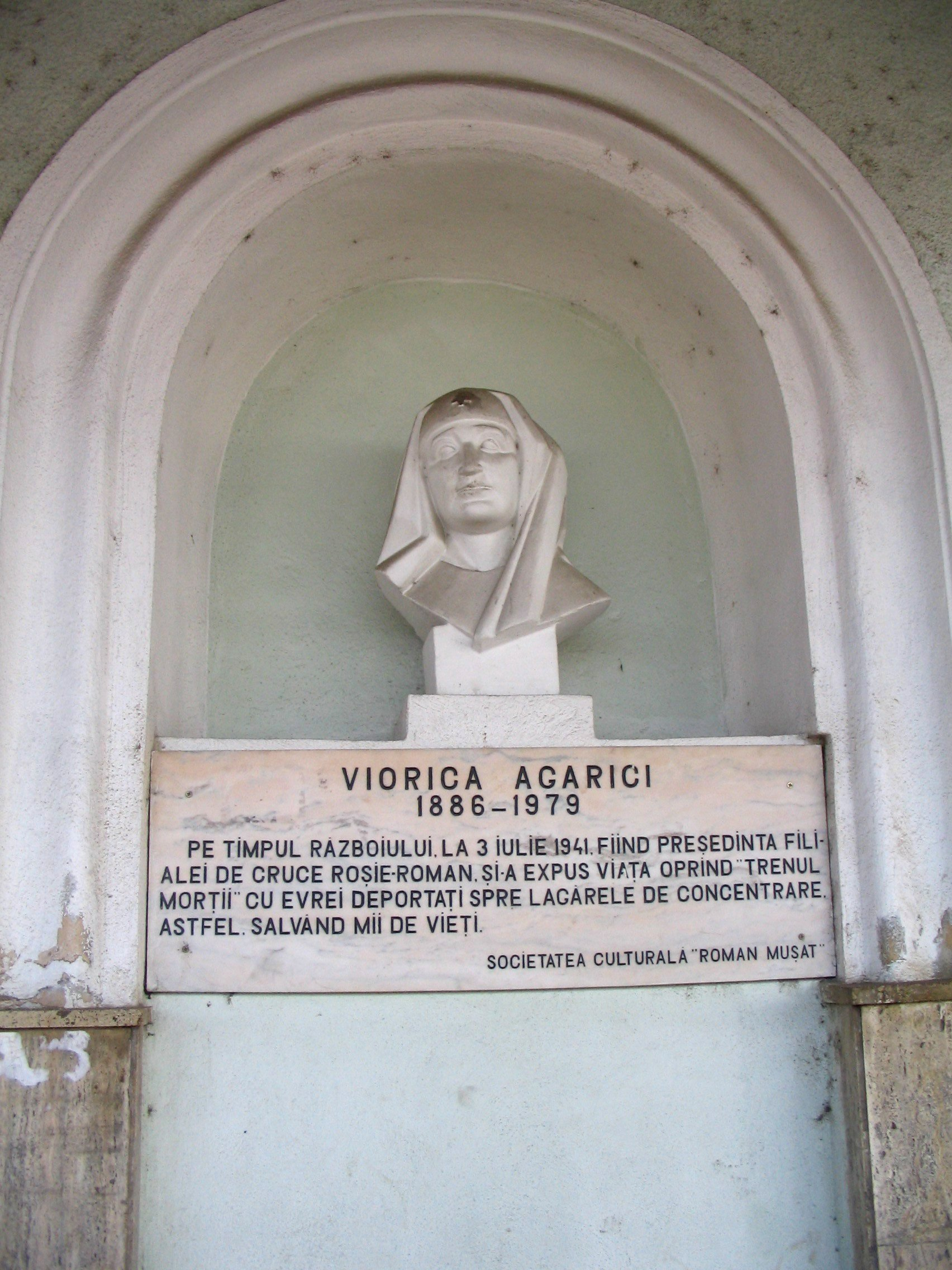 Statue of Viorica Agarici, located in the Roman train station